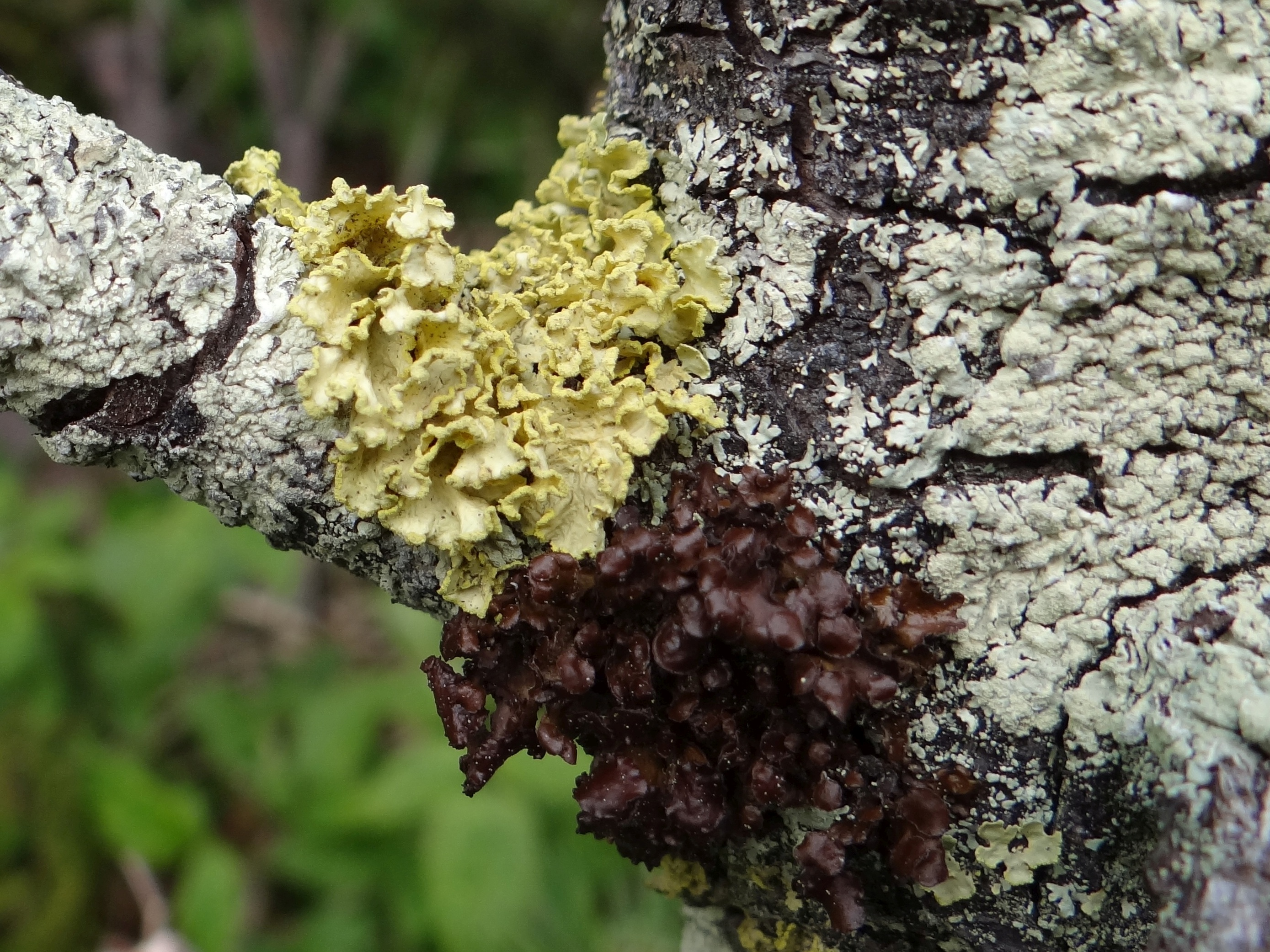 Vulpicida pinastri (yellow), Cetraria sepincola (brown) and other lichens on Pinus mugo (location: Slovakia, Nízke Tatry, Tanečnica)